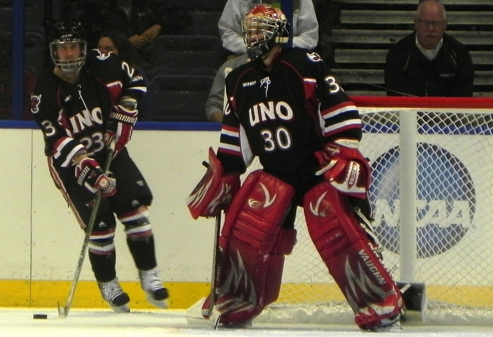 UNO Hockey vs. Michigan at the 2011 NCAA Men's Division I Ice Hockey Tournament